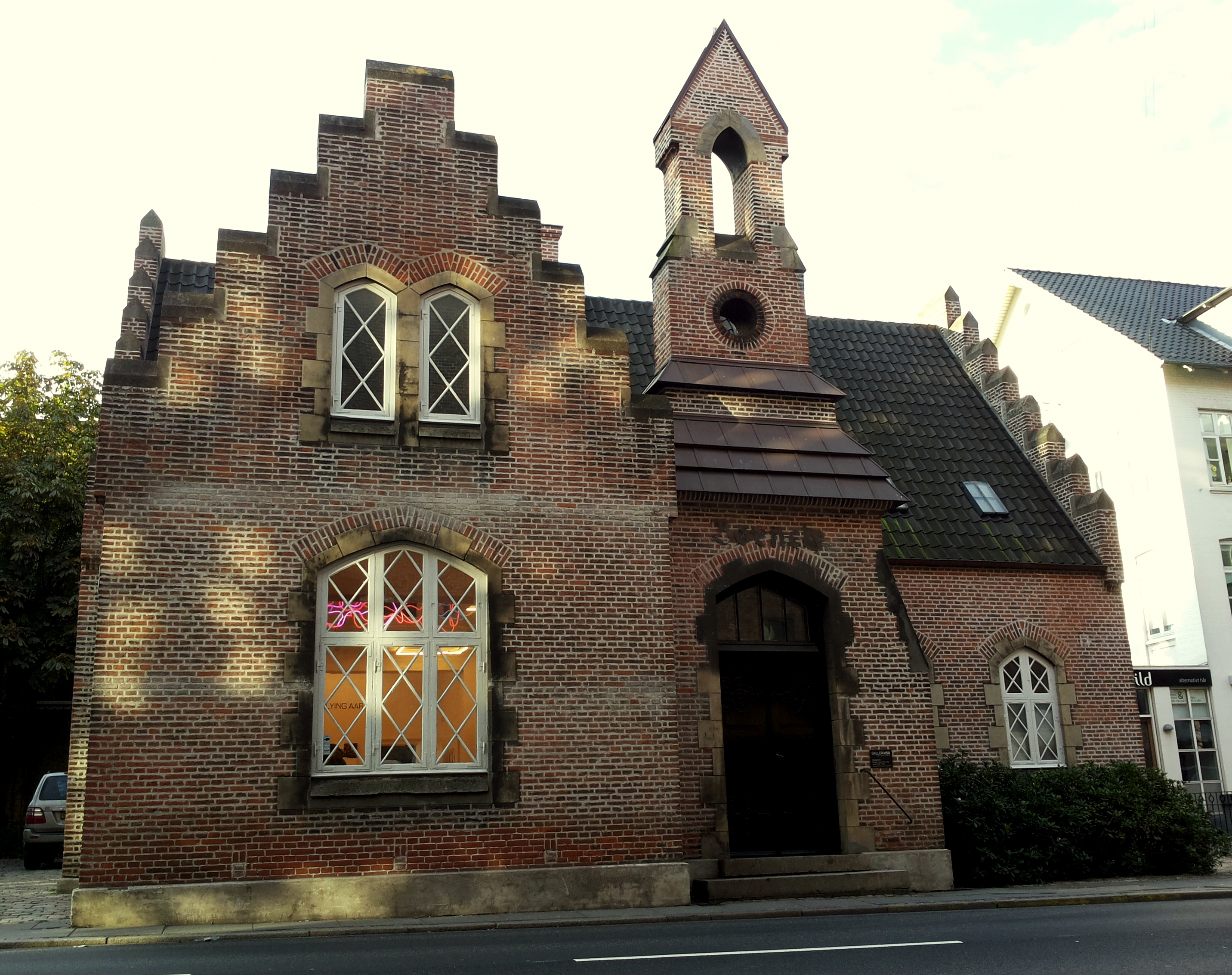 Mejlen